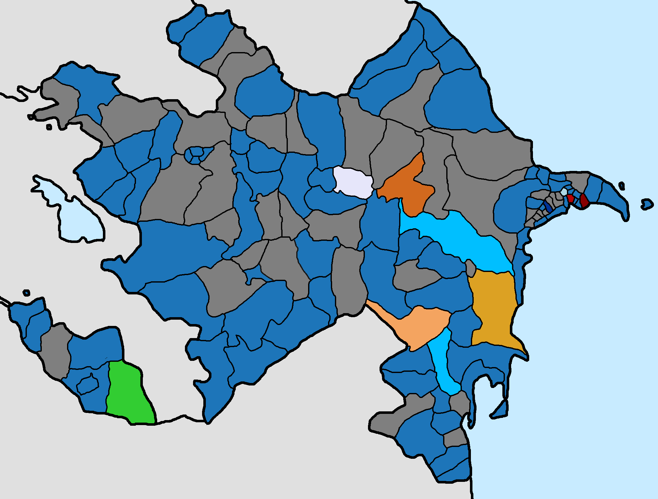 Map of the 2015 Azerbaijani parliamentary elections. New Azerbaijan Party Independent Civic Solidarity Party Motherland Party Unity Party Great Order Party Party for Democratic Reforms National Revival Movement Party Azerbaijan Social Prosperity Party Azerbaijani Social Democratic Party Whole Azerbaijan Popular Front Party Civic Unity Party